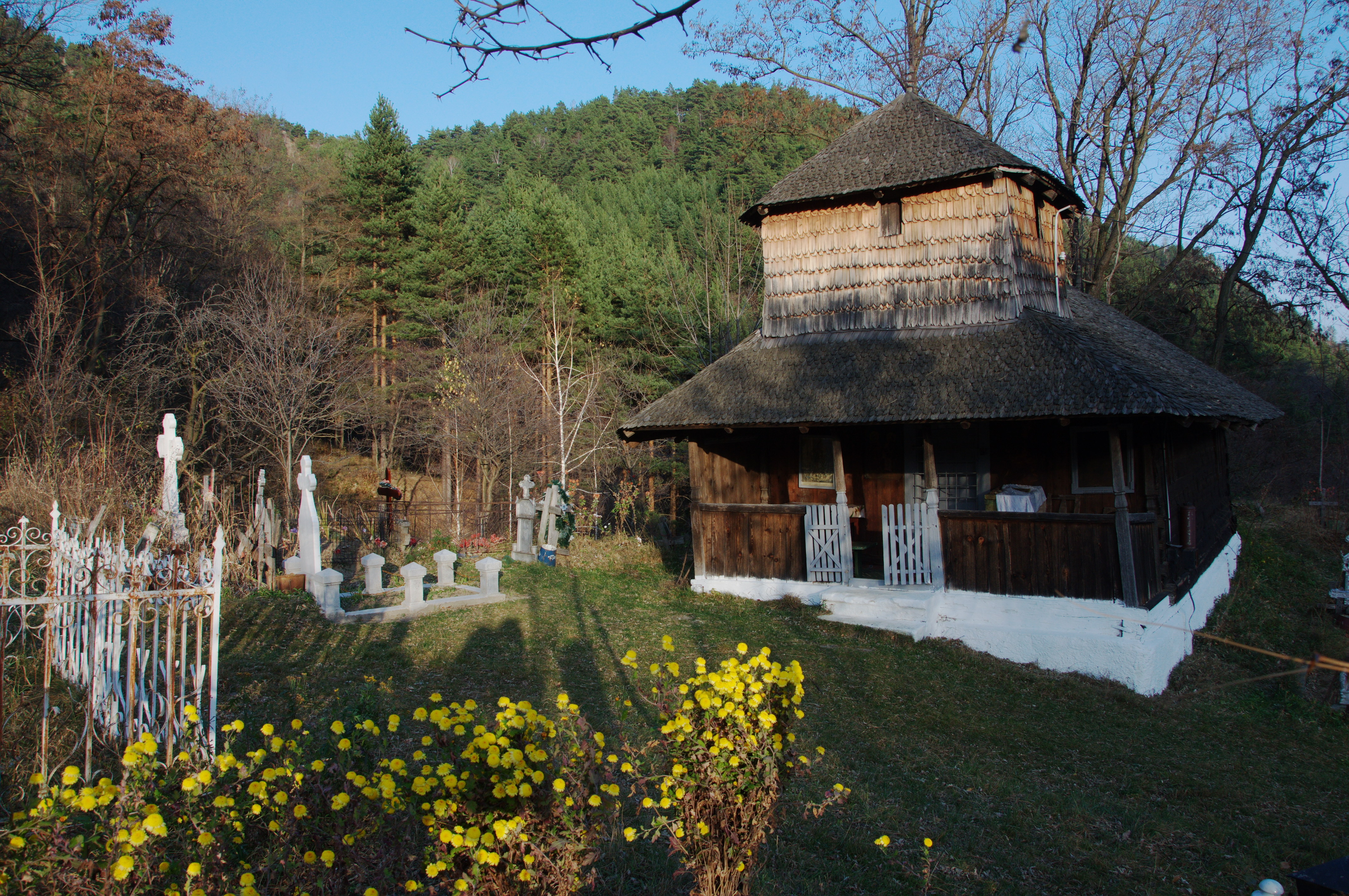 Church of rust in the Community Braesti, sat Ruginoasa, Buzau, is dedicated St. Basil and was built in 1858 01